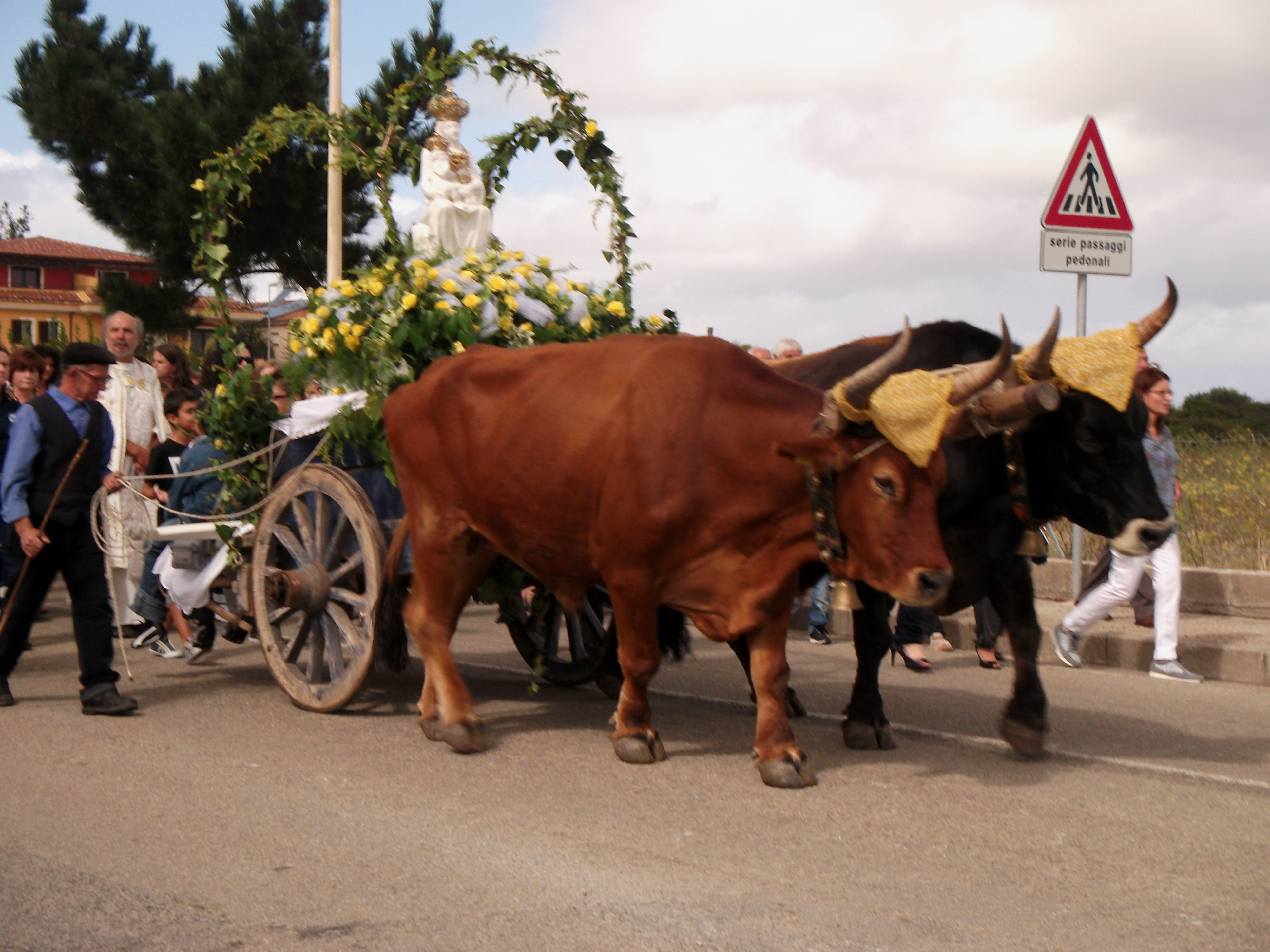 Holiday in Tergu